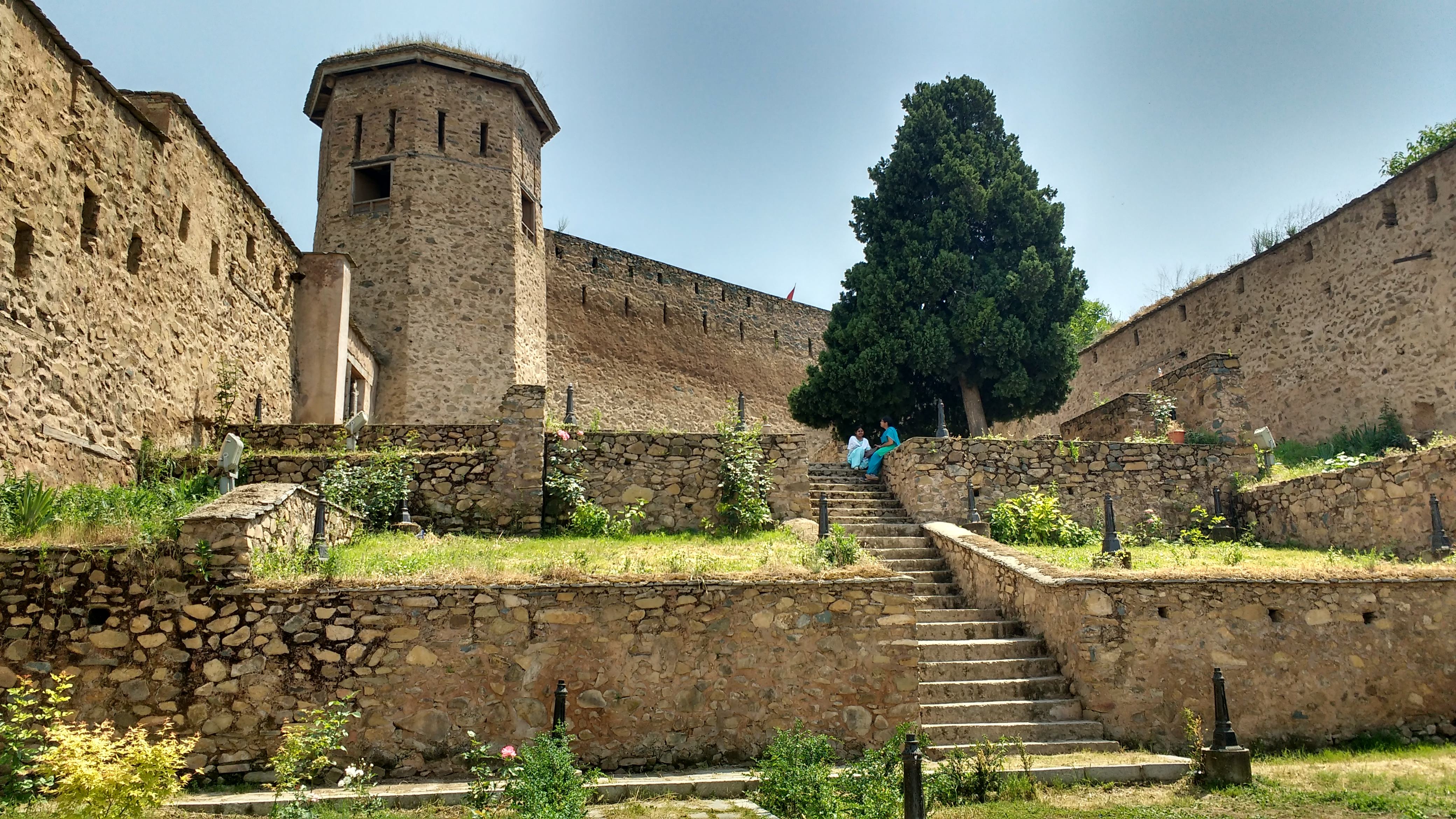 Hari Parbat Fort, Srinagar